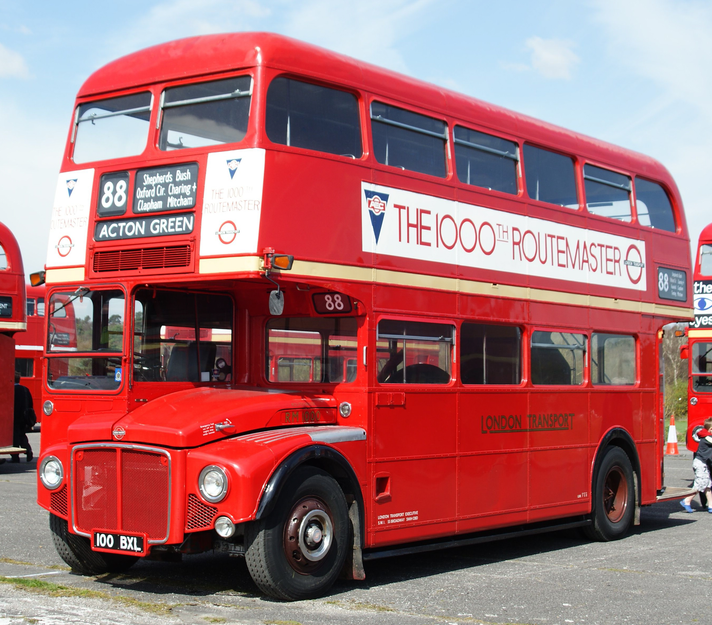 Preserved Routemaster bus RM1000 (reg. 100 BXL), pictured at the 2010 Cobham bus rally.